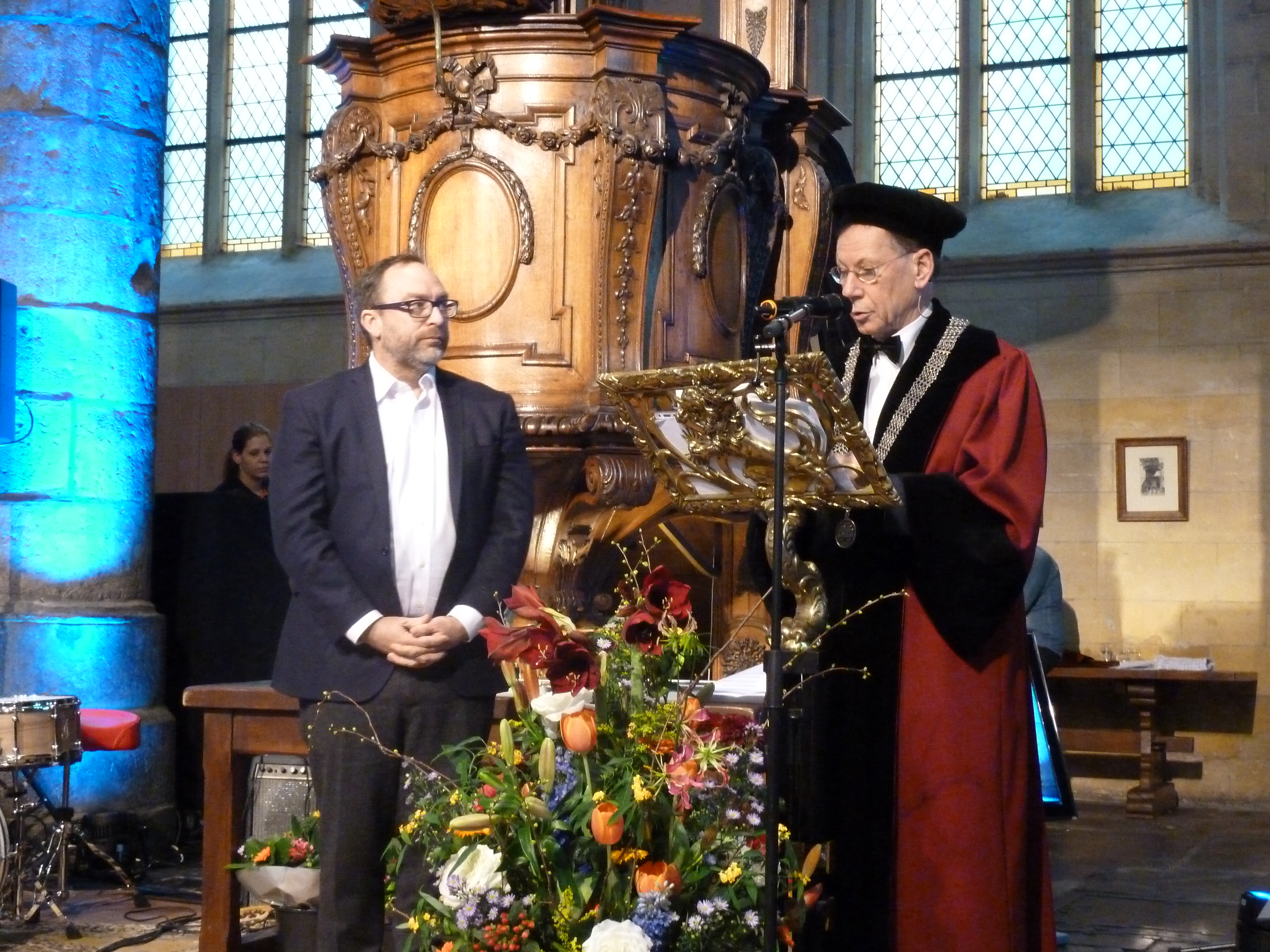 Jimmy Wales receives honorary doctorate from Maastricht University